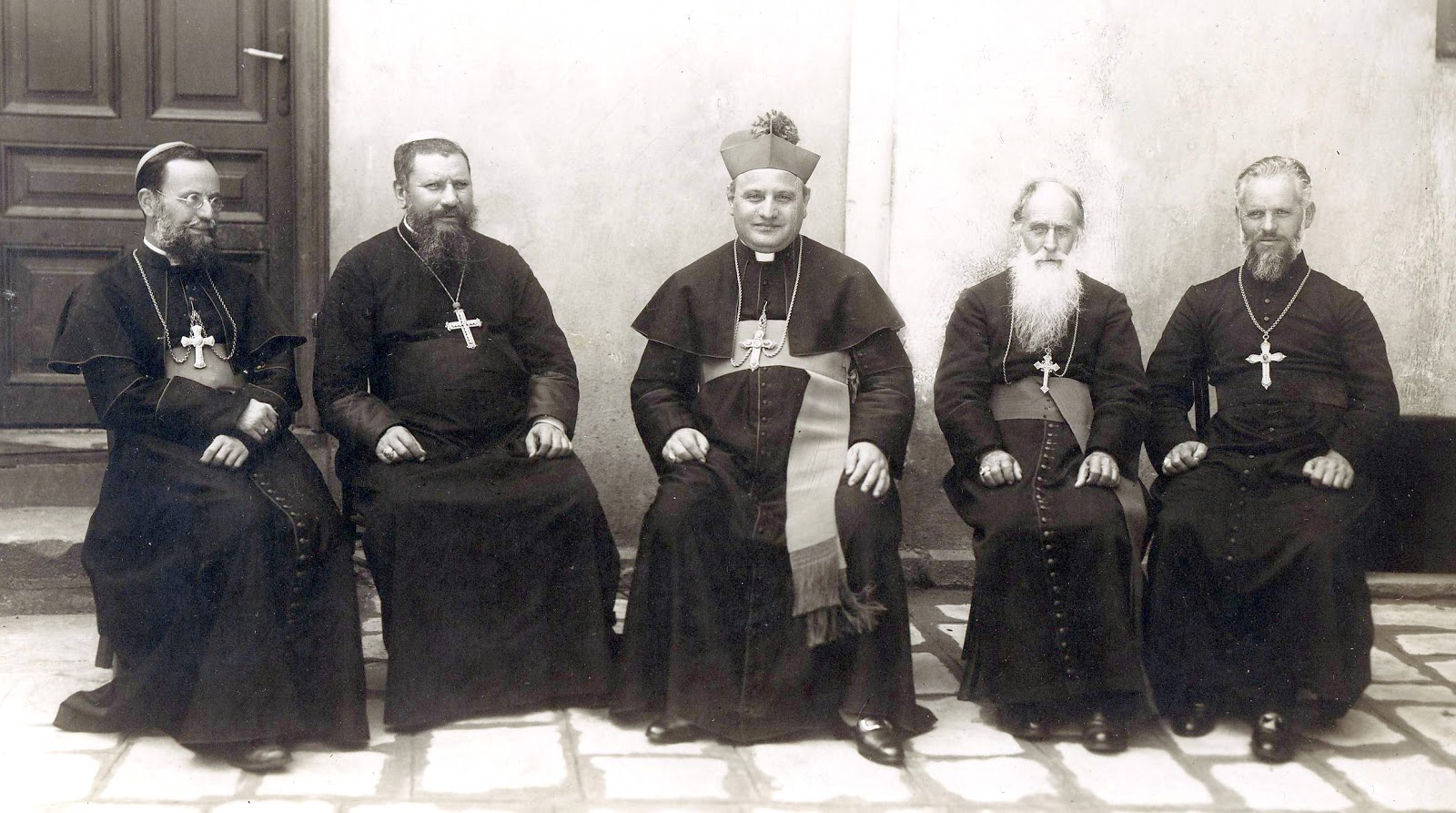 Msgr.Damian Theelen, Msgr. Vincenzo Peev, Msgr. Angelo Roncalli, Msgr. Epifanio Shanov and Msgr. Kiril Kurtev